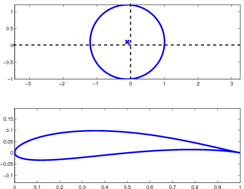 Example of a Joukowsky transform. Created by moink using MATLAB